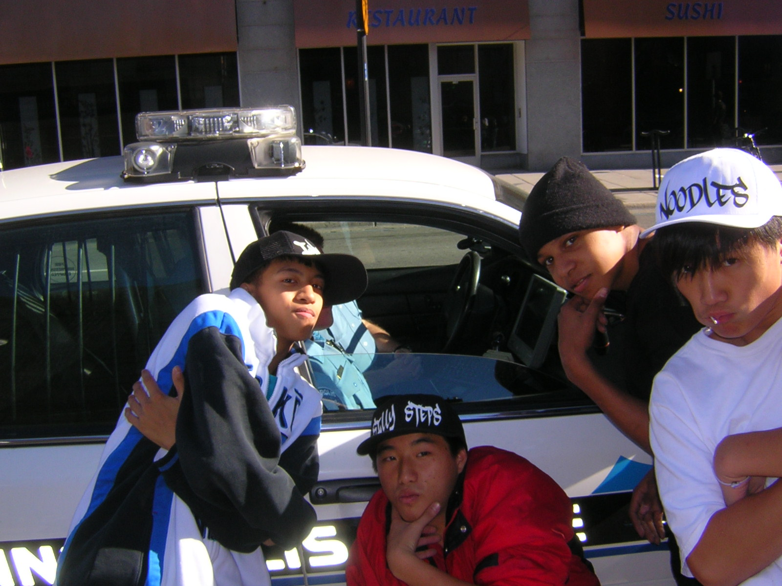 Minnesota Shubert Groundbreaker Battle 2008, Hennepin Avenue, Minneapolis, Minnesota, USA. Thank you to everybody who offered to make this photo. Personality rights may apply.